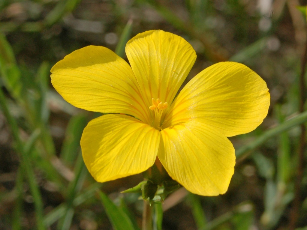 Linum campanulatum - Piani di Praglia, Genova, Italy